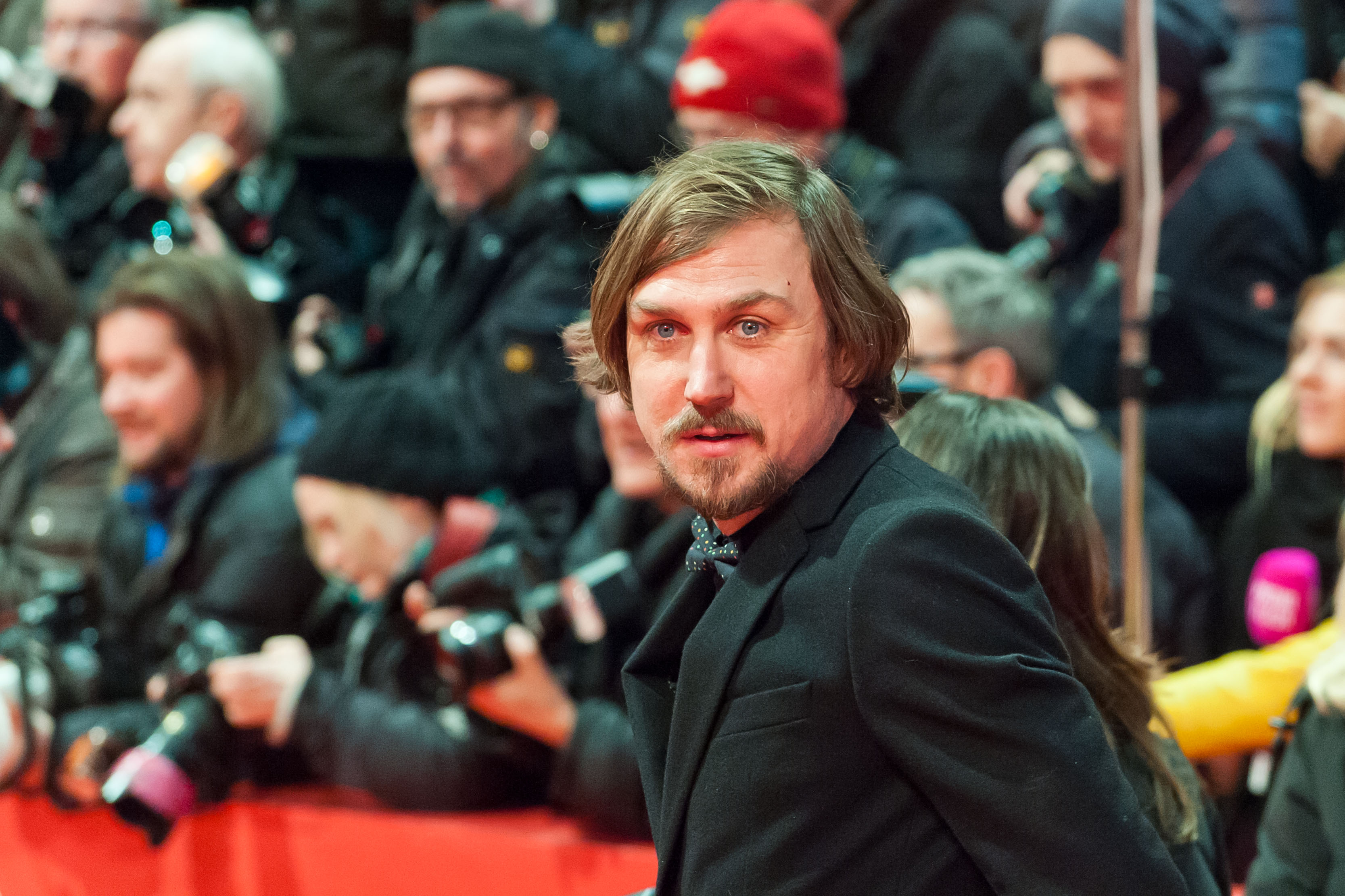 German actor Lars Eidinger, Opening of the 64th Berlin International Film Festival at the Berlinale Palast